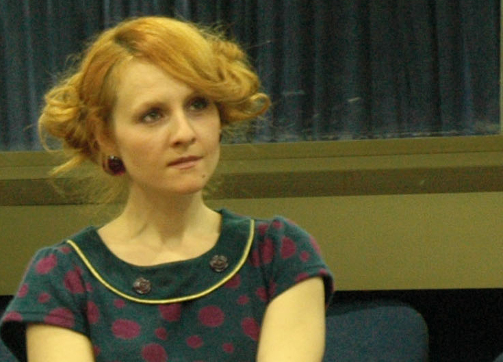 Aleksandra Kovač, a Serbian singer-songwriter.